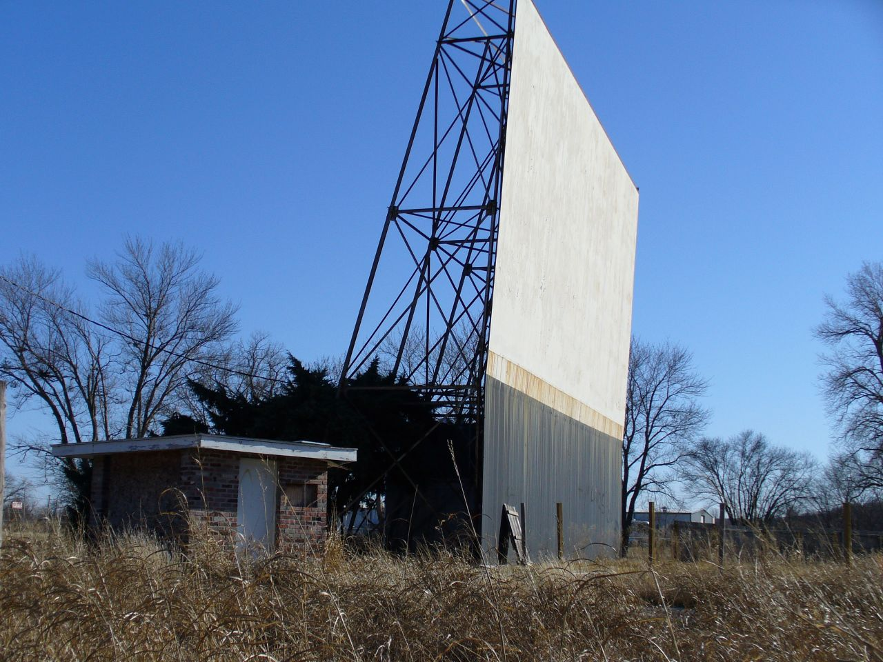 The screen at an old Drive-In Movie Theater on Route 66 near Sapulpa, Oklahoma.